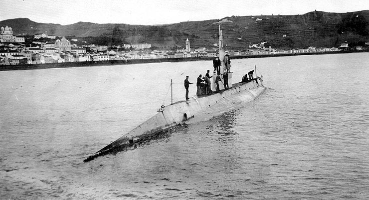 USS K-6 (Submarine # 37) at Horta, Fayal, Azores, in December 1917. Photographed from USS Margaret (SP-527) by Raymond D. Borden. Original caption: "Photo # NH 52393 USS K-6 at Horta, Fayal, Azores, in December 1917" — removed caption